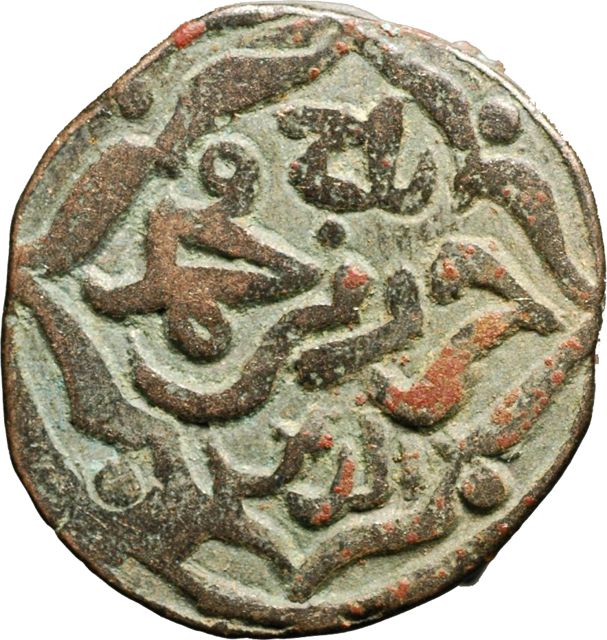 The obverse of a coin minted under Taj al-Din Harb b. Muhammad, a Nasrid king of Sistan.